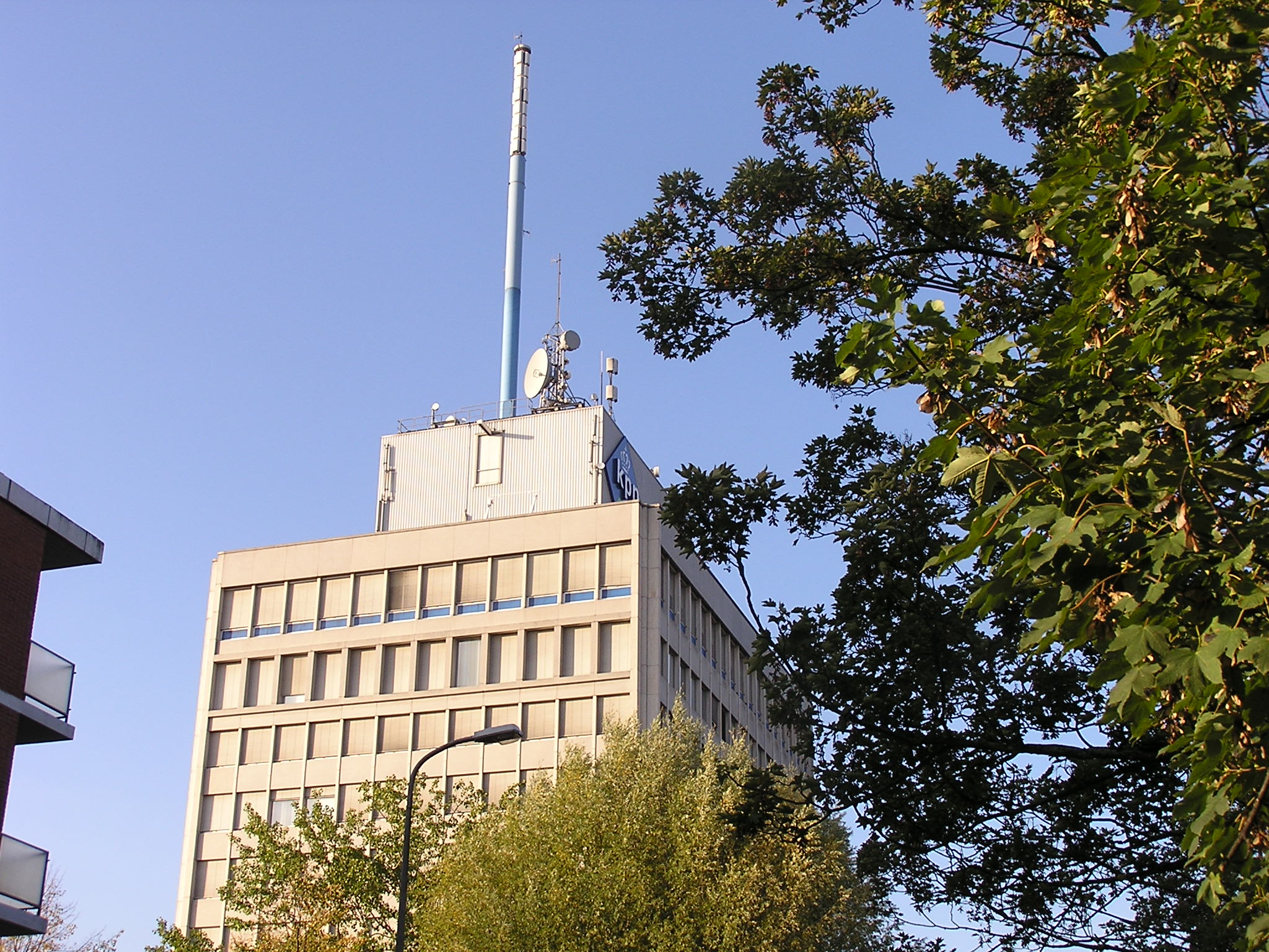 Building rented by Dutch telecom company KPN